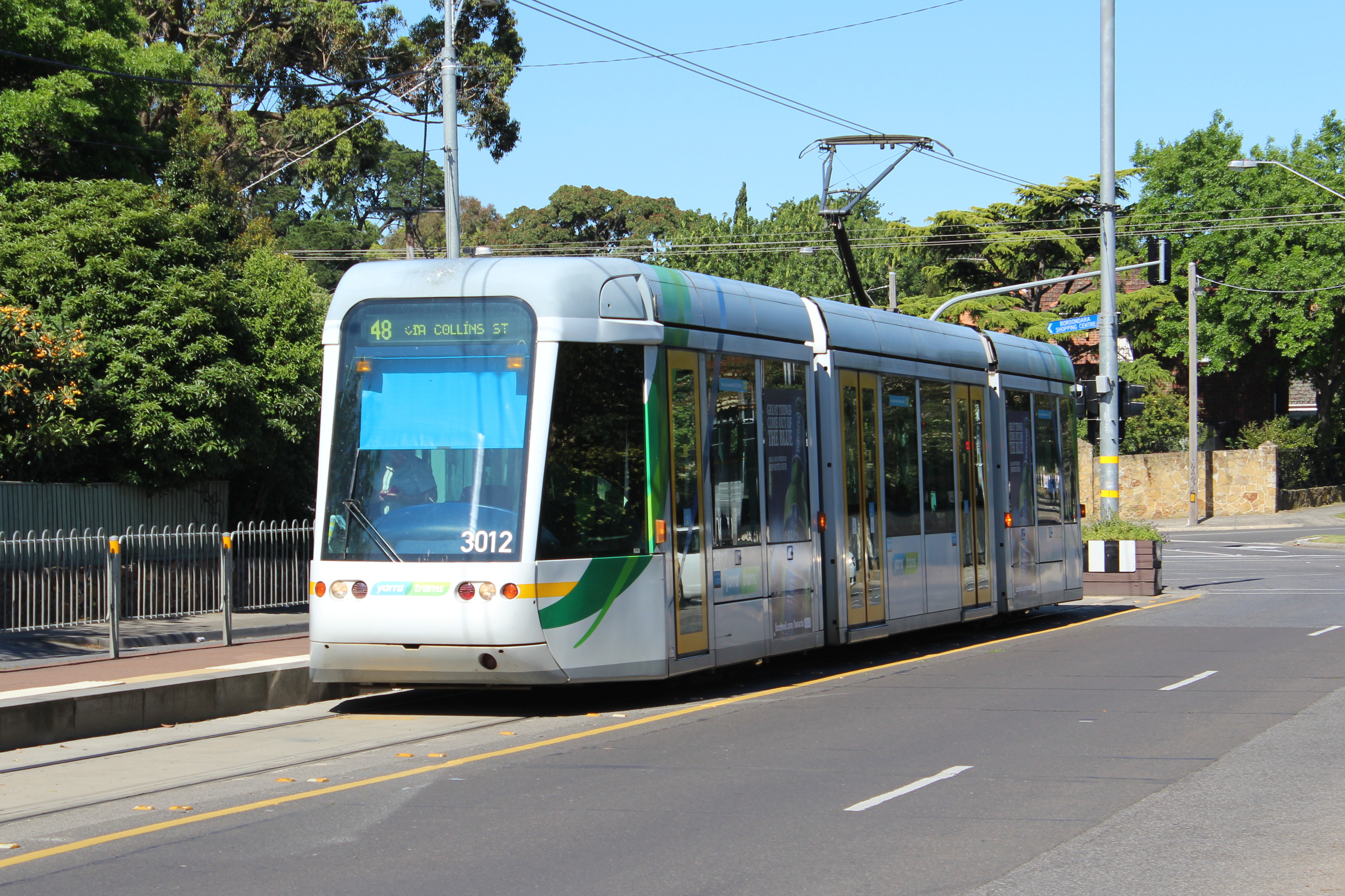 C 3012 at North Balwyn terminus, about to start a route 48 service to Victoria Harbour, 2012.